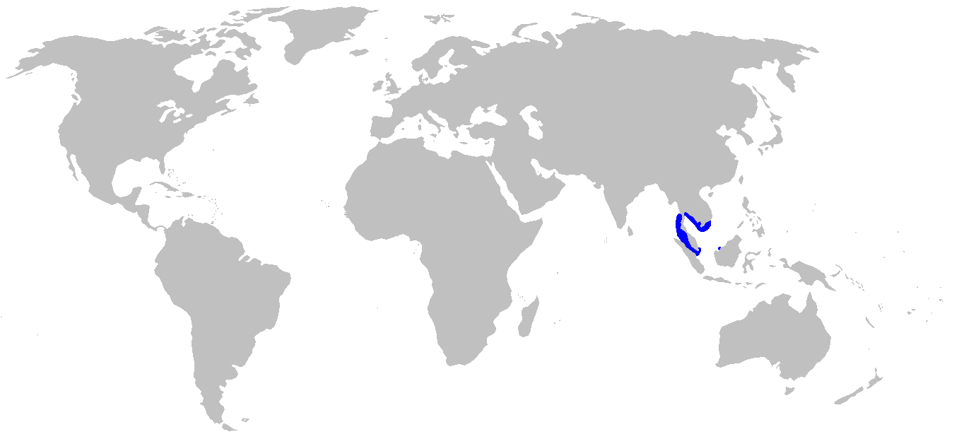 Range of the finless sleeper ray (Temera hardwickii)